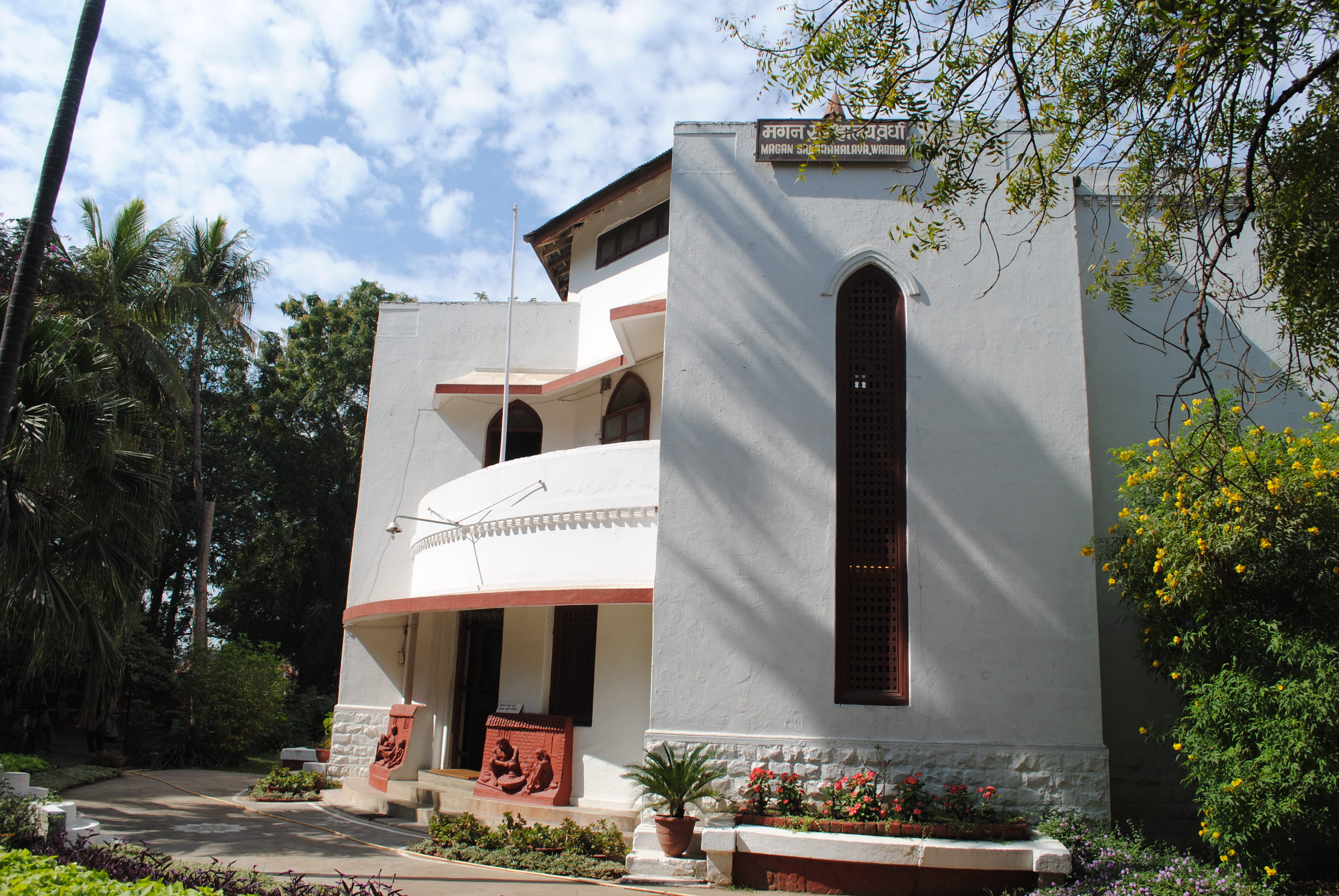 This museum was inaugurated by Mahatma Gandhi in 1938. It was built with the purpose of spreading awareness about rural inovations, technologies, etc. Various types of charkhas, khadi, hadicrafts made by rural artisans are exhibited.